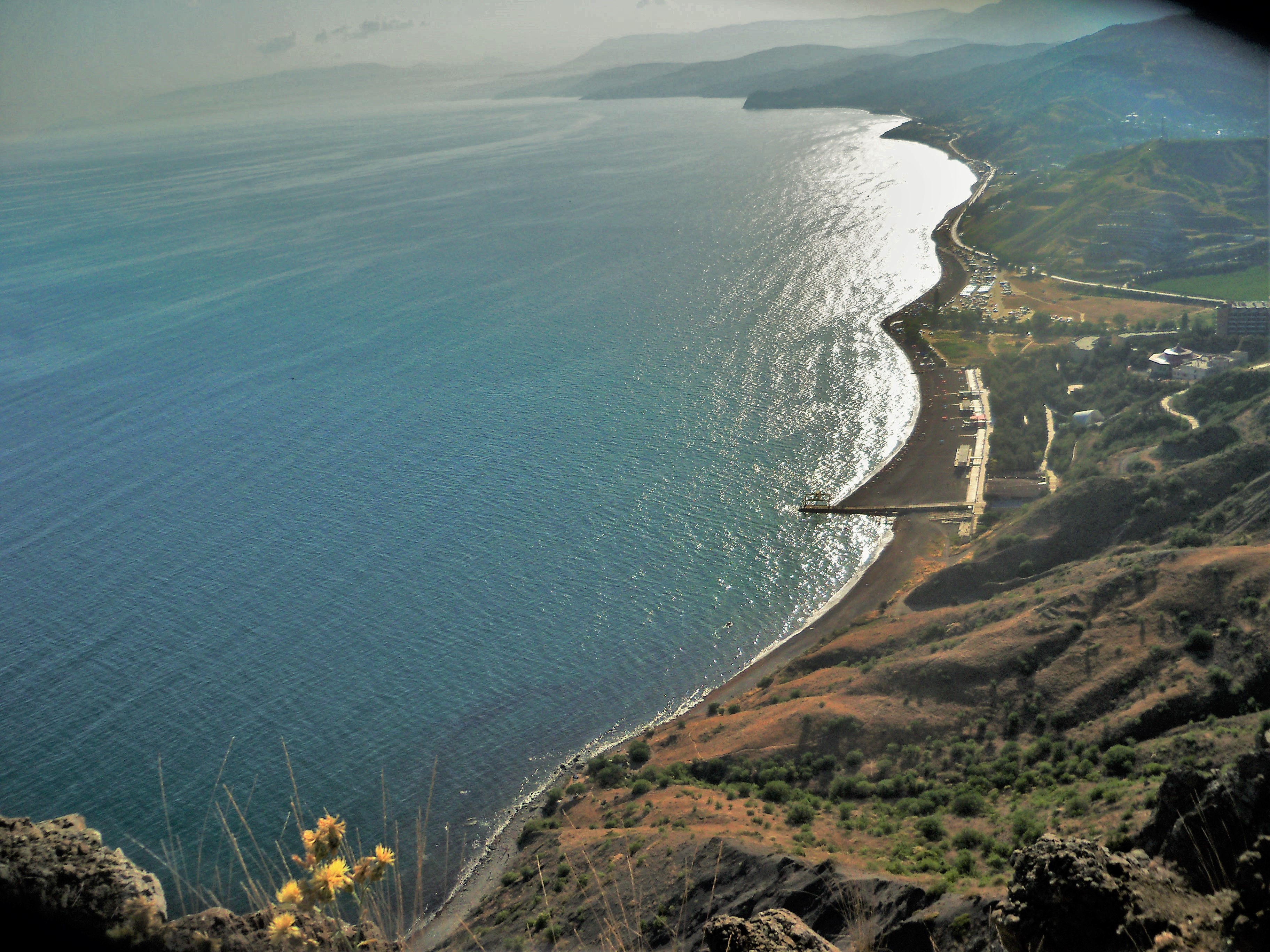 Village Morskoe, Crimea. View from the mountain Papaya-Kaya